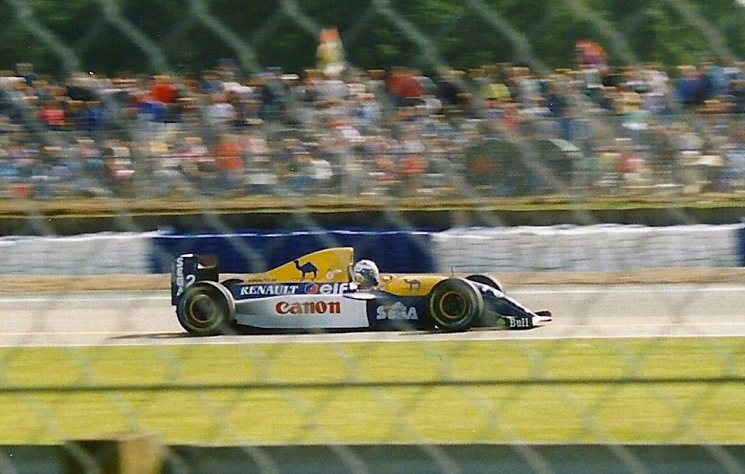 Alain Prost driving a Williams-Renault FW15C at Silverstone in 1993.